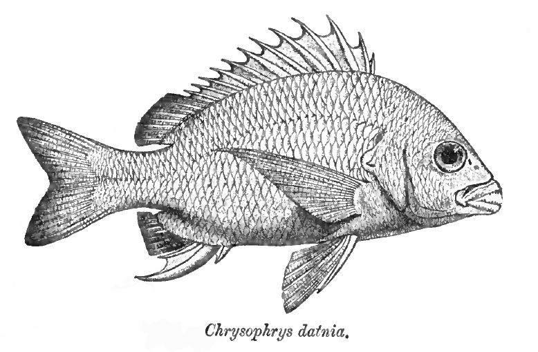 Chrysophrys datnia = Acanthopagrus latus (Houttuyn, 1782)